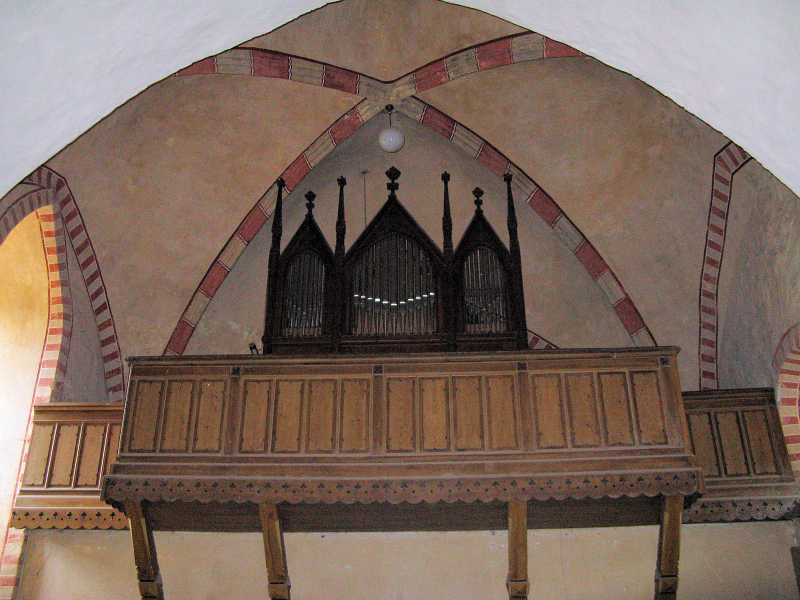 Pipe organ in the church in Bellin, disctrict Güstrow, Mecklenburg-Vorpommern, Germany